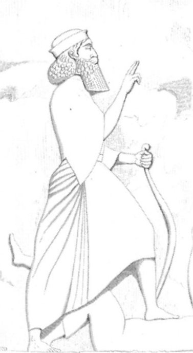 King Darius I of Persia (Darius the Great).